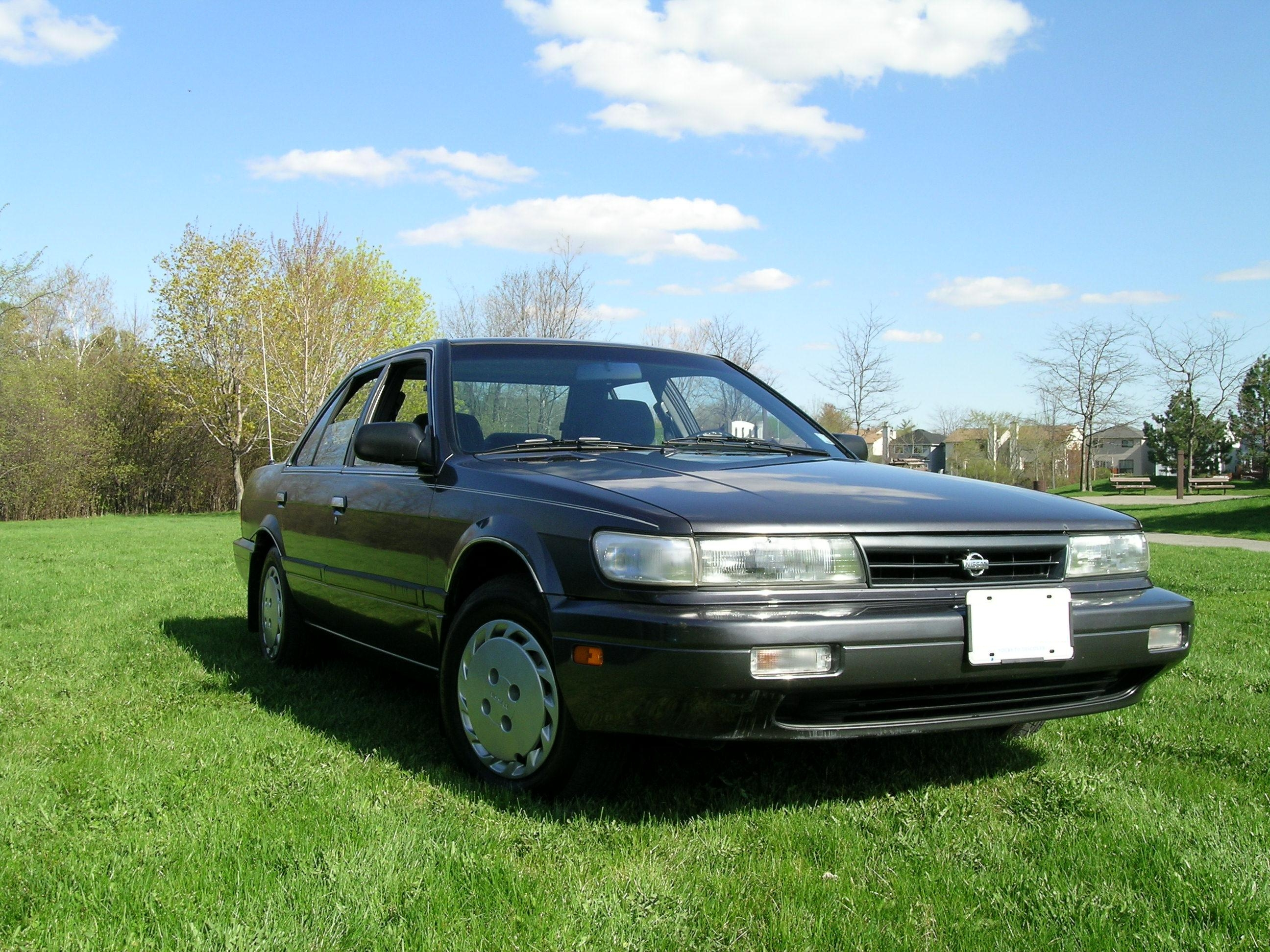 Hard parking 91 Nissan Stanza.